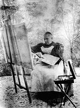 Charlotte Christiane Rosine Sophie von Krogh (1827-1913), Danish painter